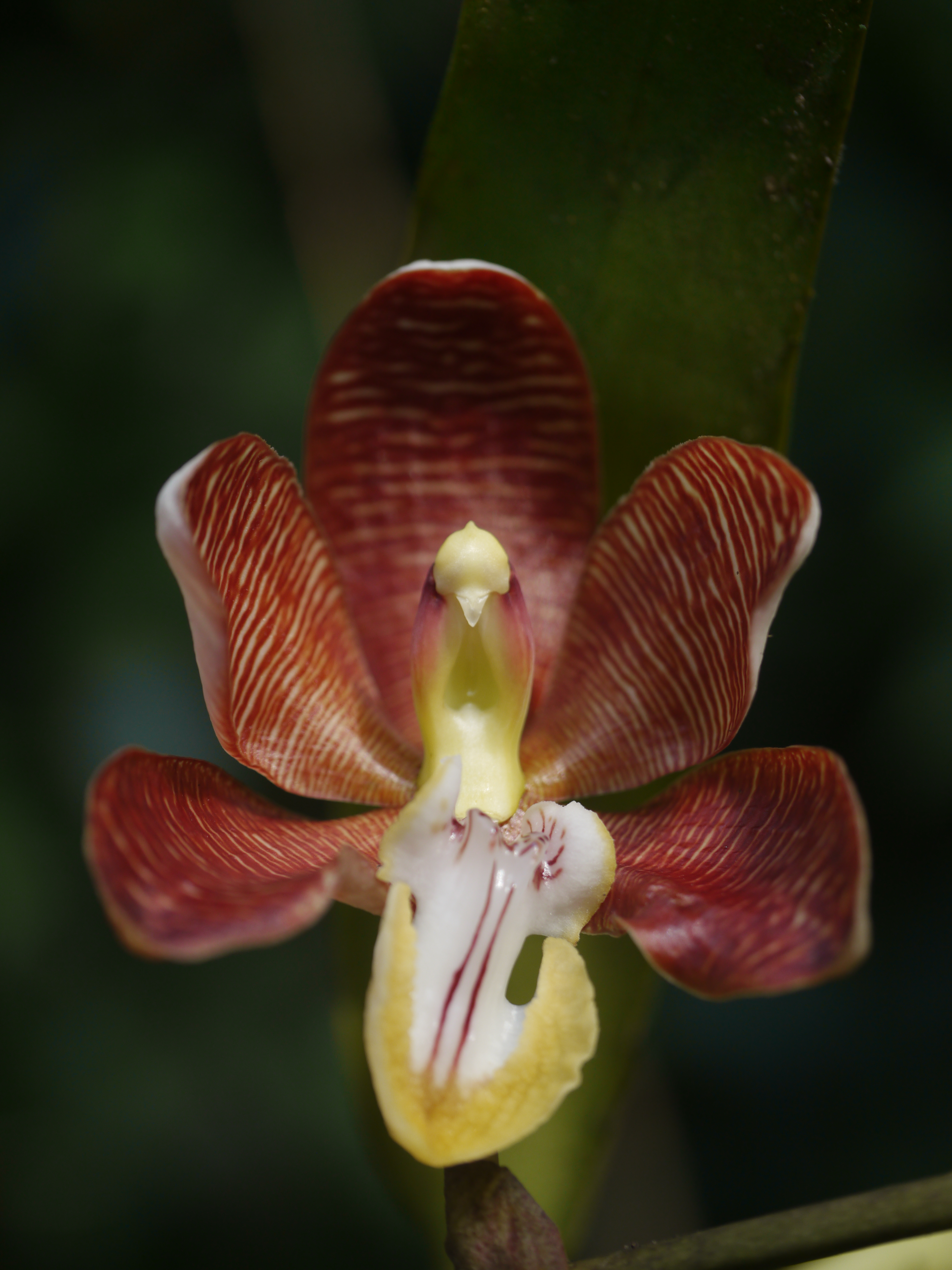 Flower of Arachnis cathcartii photographed in the wild in Namdapha National Park and Tiger Reserve